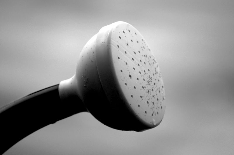 A watering can spout of the spray type.